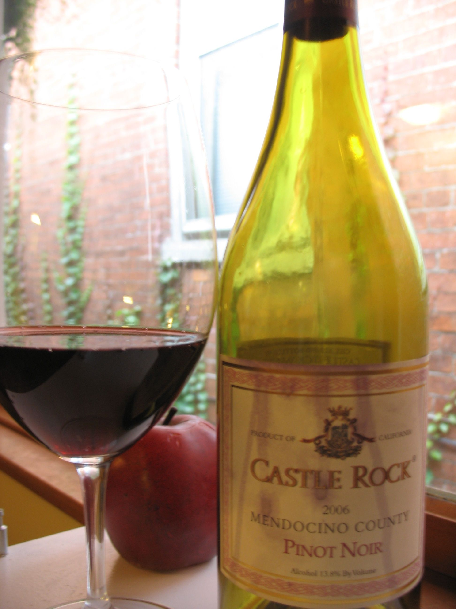 A bottle and glass of California Pinot noir wine made in Mendocino county